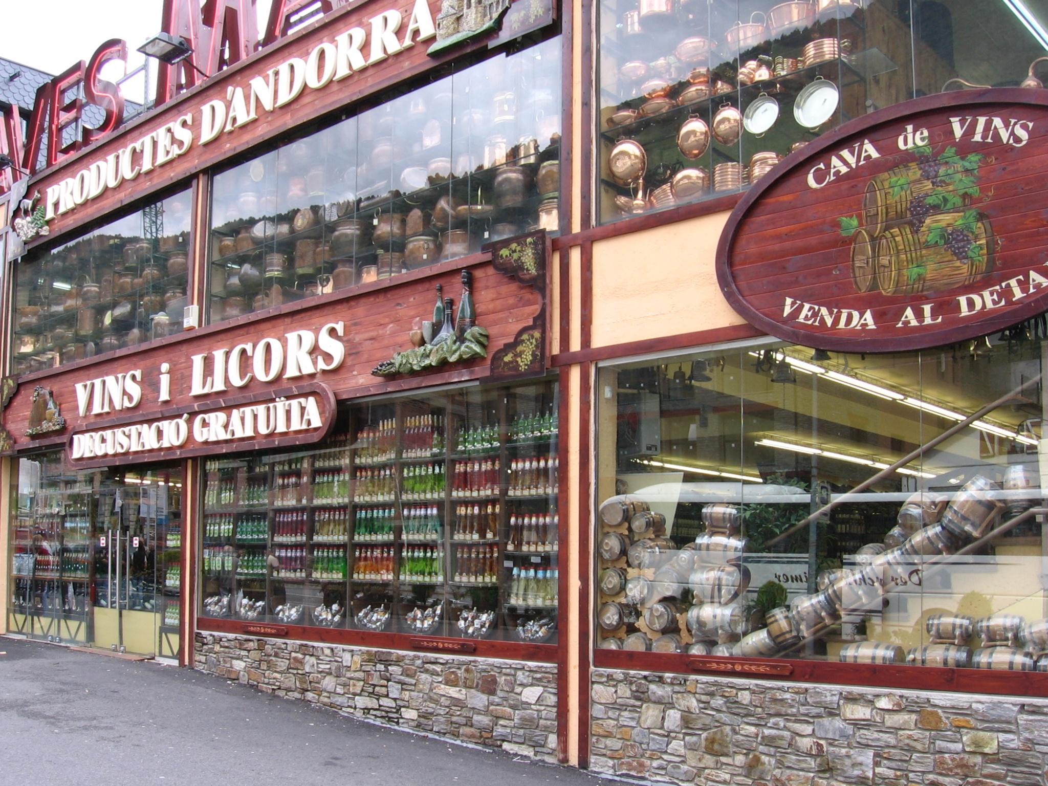 Ransol, Andorra - one of many shops with many alcohol and tobacco products.